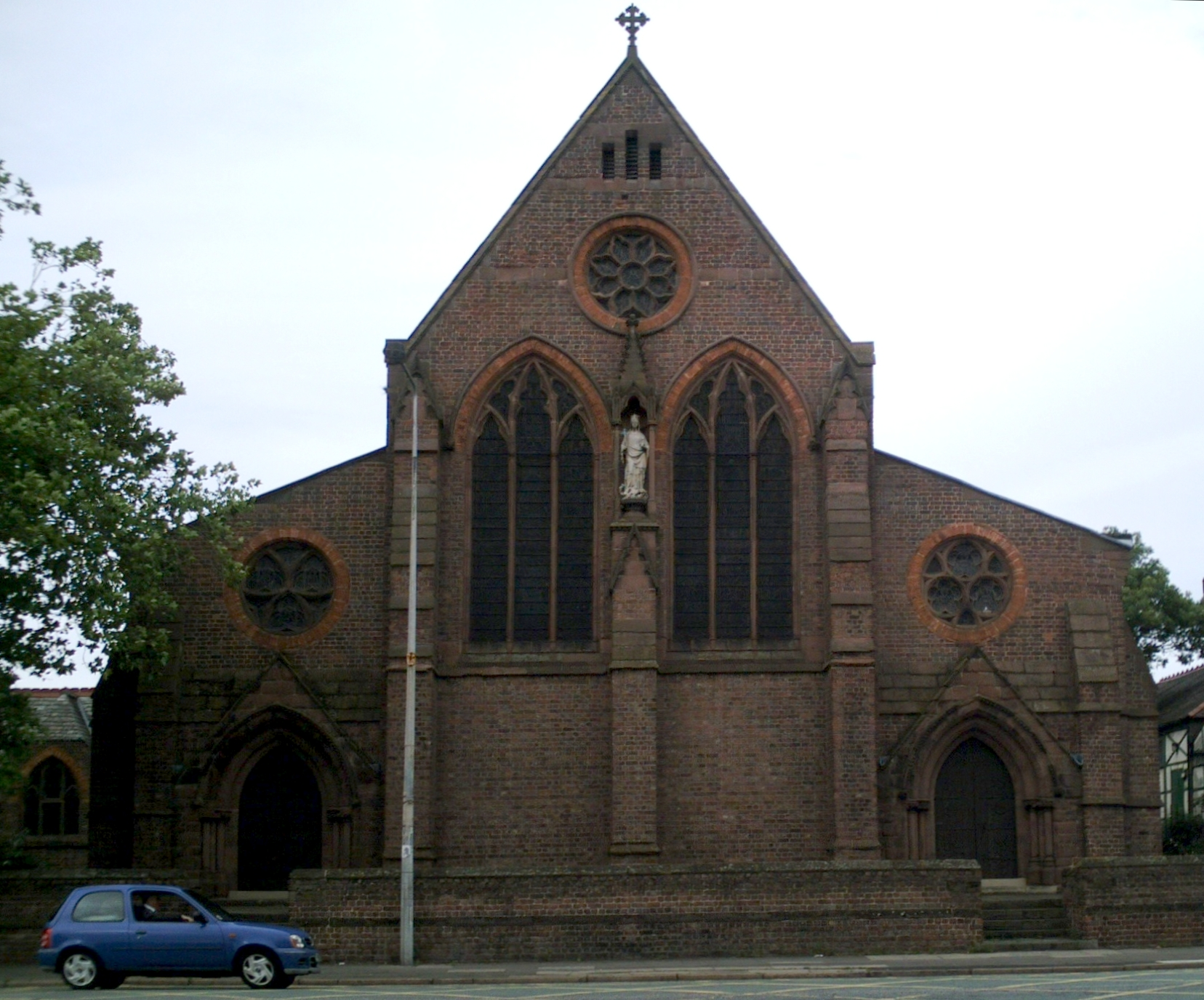 FRontage of St Margarets with effigy